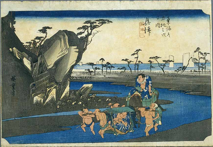 Okitsu on the Tokaido, ukiyo-e prints by